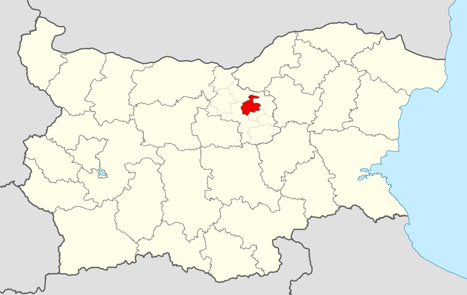 Location map of Gorna Oryahovitsa Municipality within Bulgaria and Veliko Tarnovo Province. Equirectangular projection, N/S stretching 130 %. Geographic limits of the map: N: 44.4° N S: 41.1° N W: 22.1° E E: 28.9° E